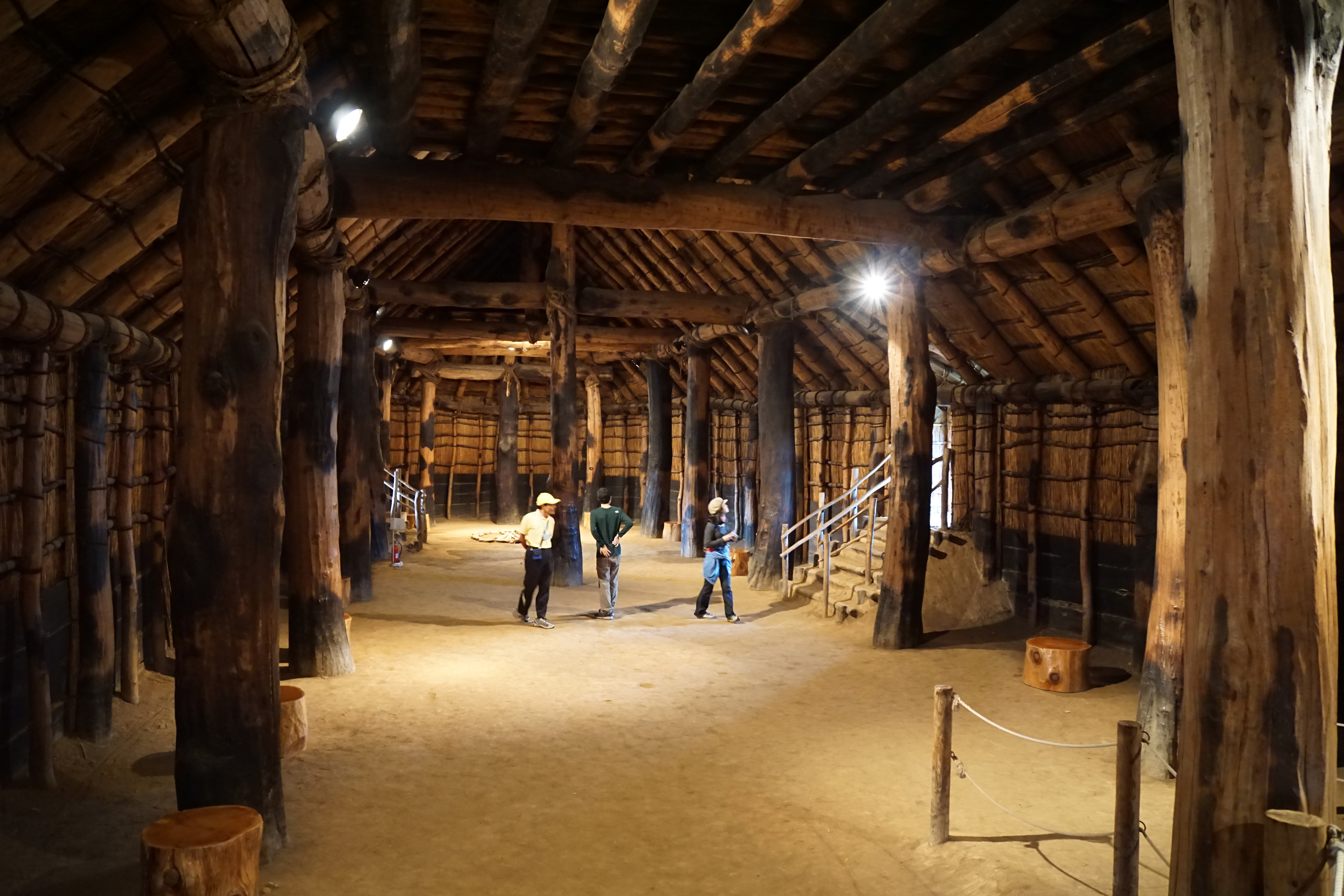 Sannai-Maruyama_site in Aomori, Aomori prefecture, Japan.